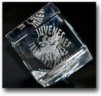 A crystal cube trophy with 3 holograms inside it (Juvenes Translatores, The EU map, and the logo of the Directorate-General for Translation)